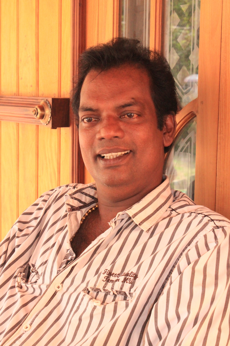 Malayalam film actor Salimkumar